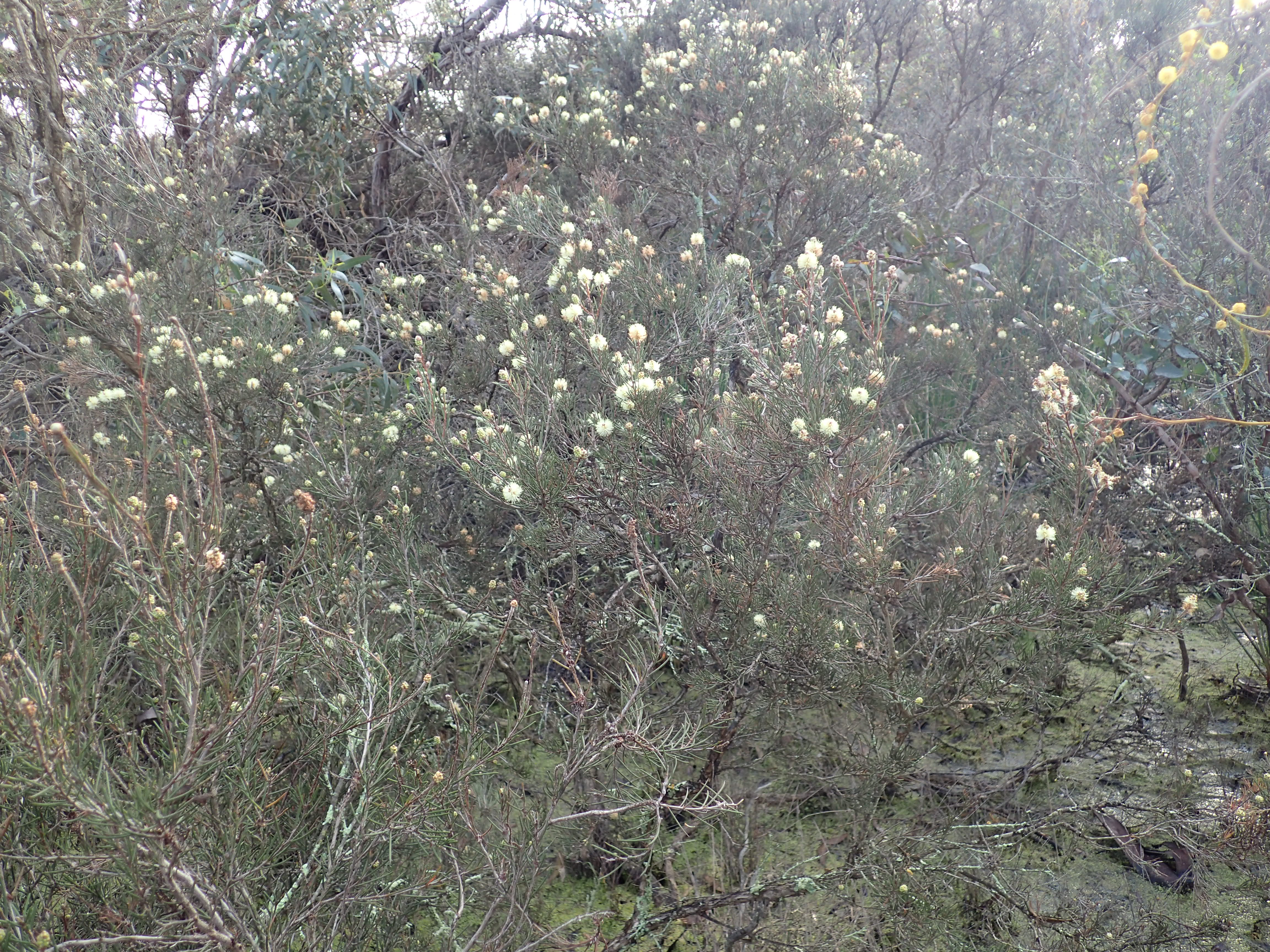 Melaleuca thapsina growing in a swamp on Coxall Road near Munglinup